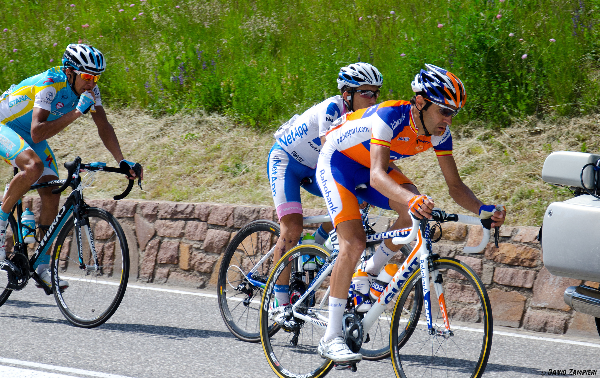 Juanma Garate, Cesare Benedetti e Andrey Zeits during the earlier 19th stage breakaway giro d'Italia 2012